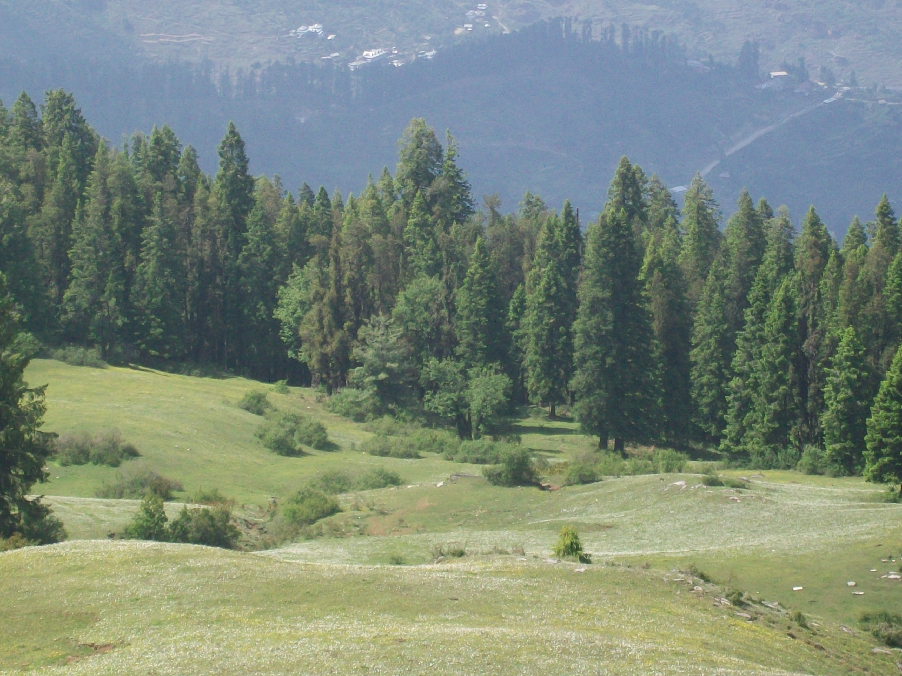 giriganga near kharapather himachal